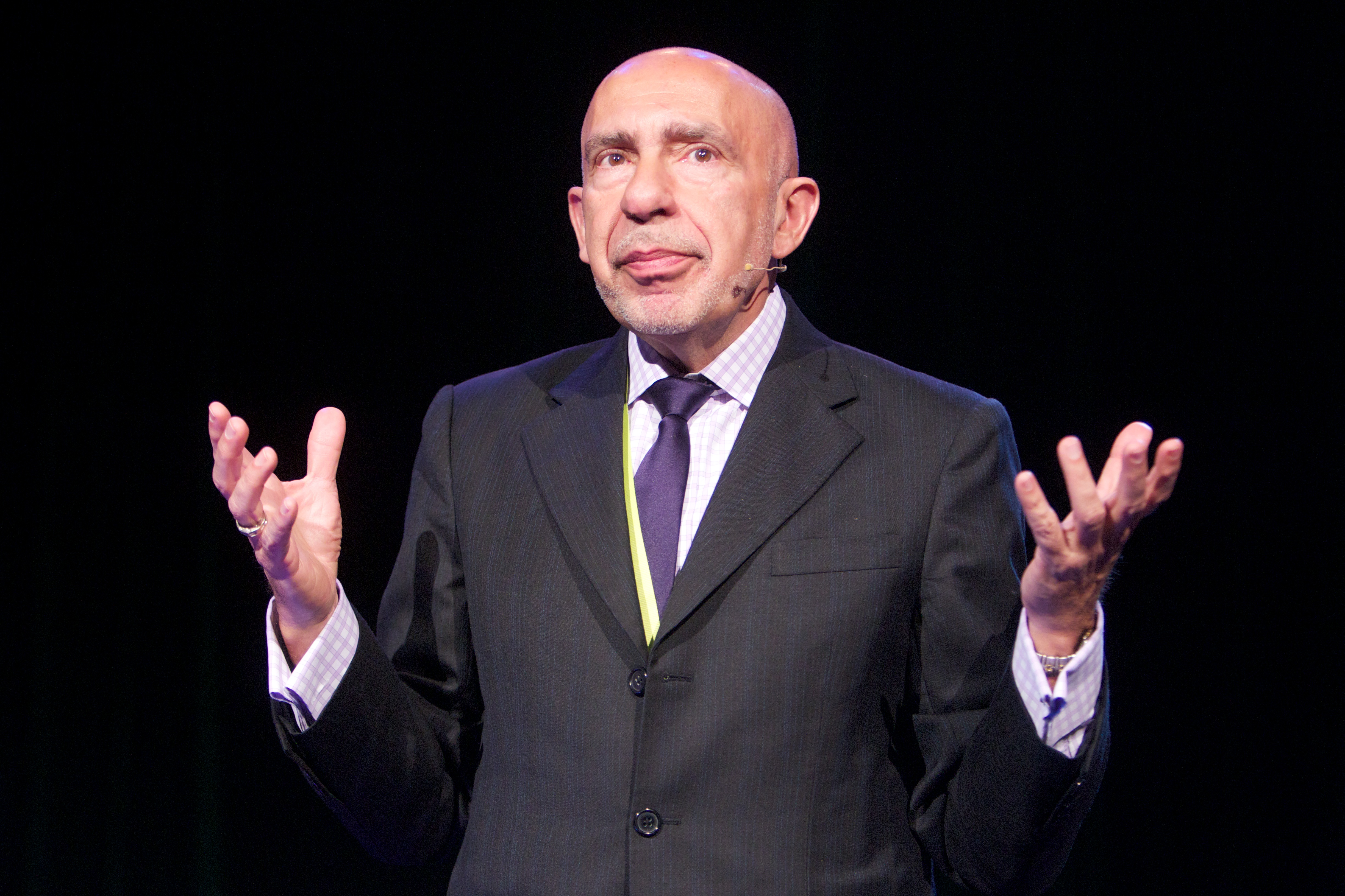 Mario Garcia at The Nordic Media Festival, Bergen, May 2011. Photo: Eirik Helland Urke